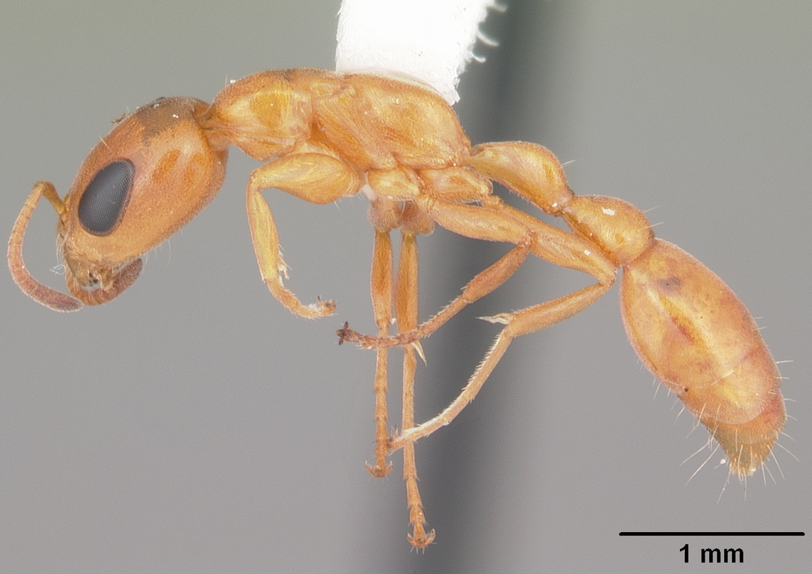 Profile view of ant Pseudomyrmex seminole specimen casent0103884.